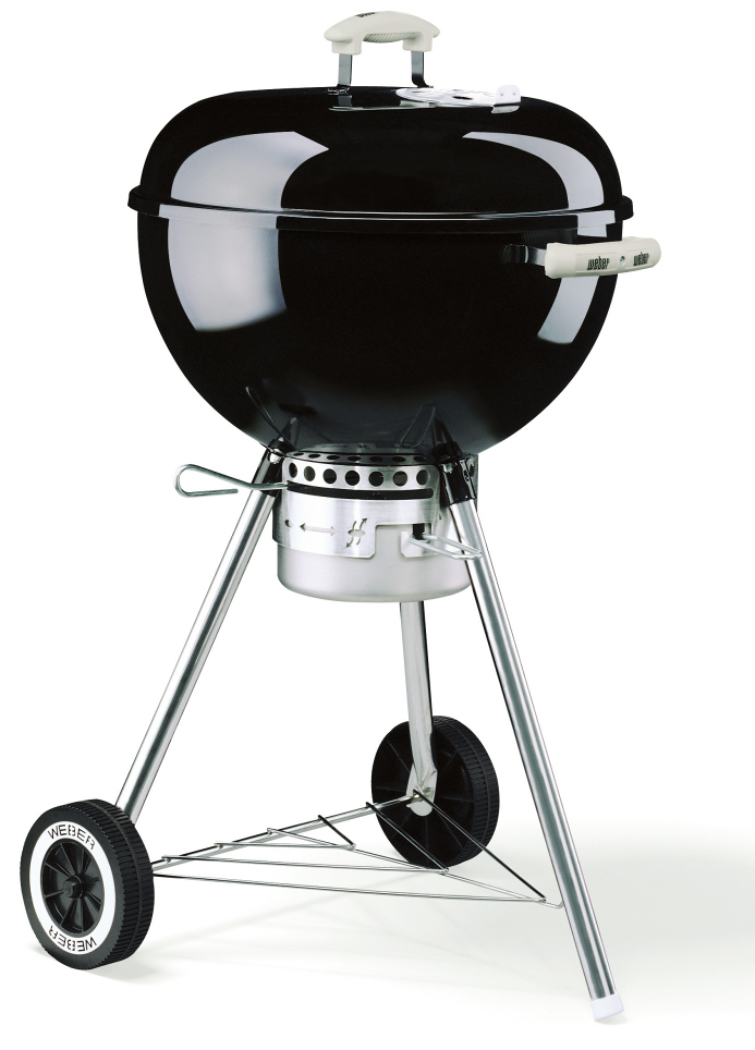 One touch premium